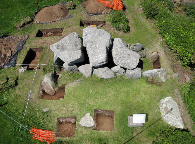 Overhead view of the excavation